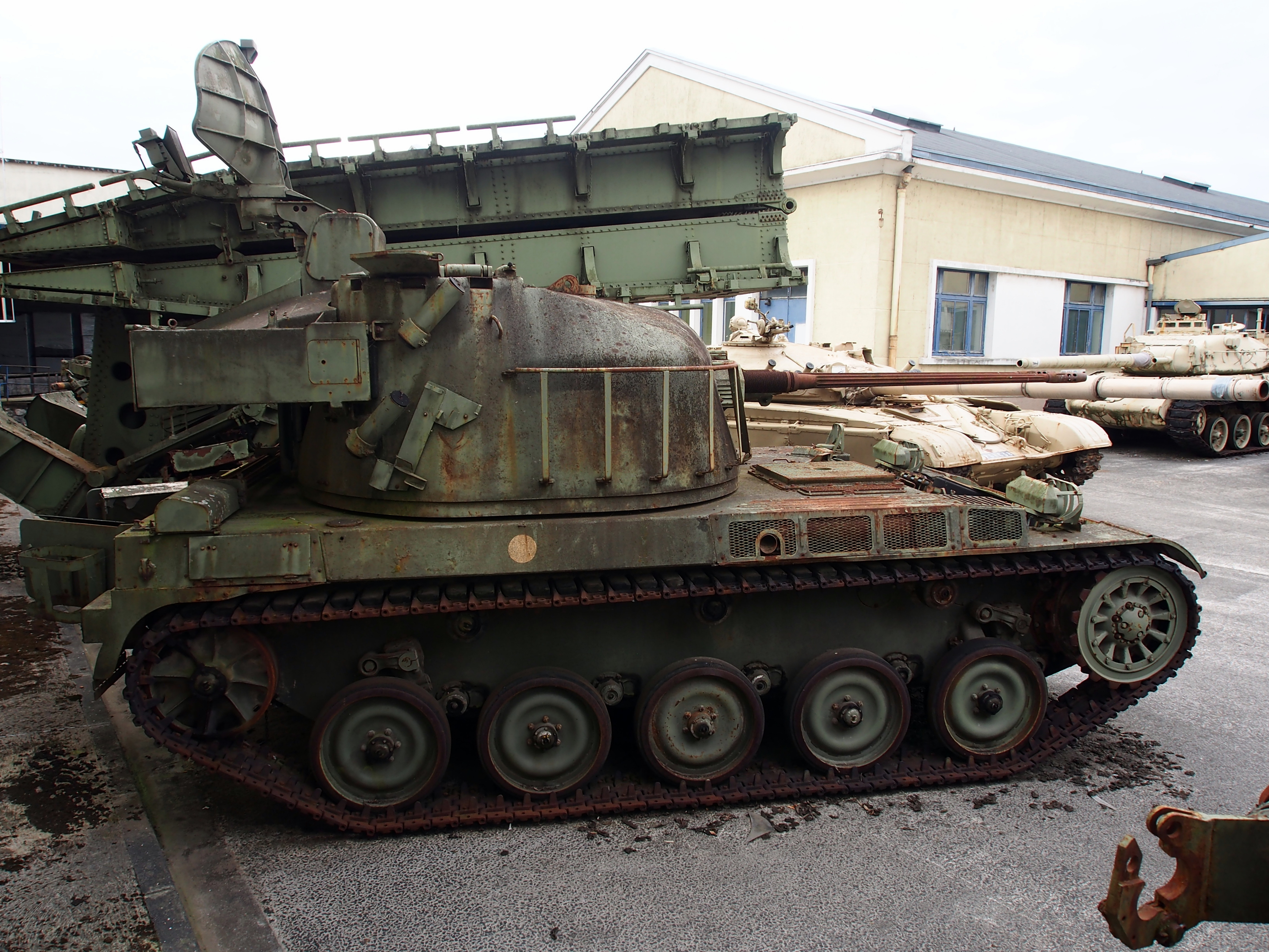 Photographed in the Musée des Blindés, France.